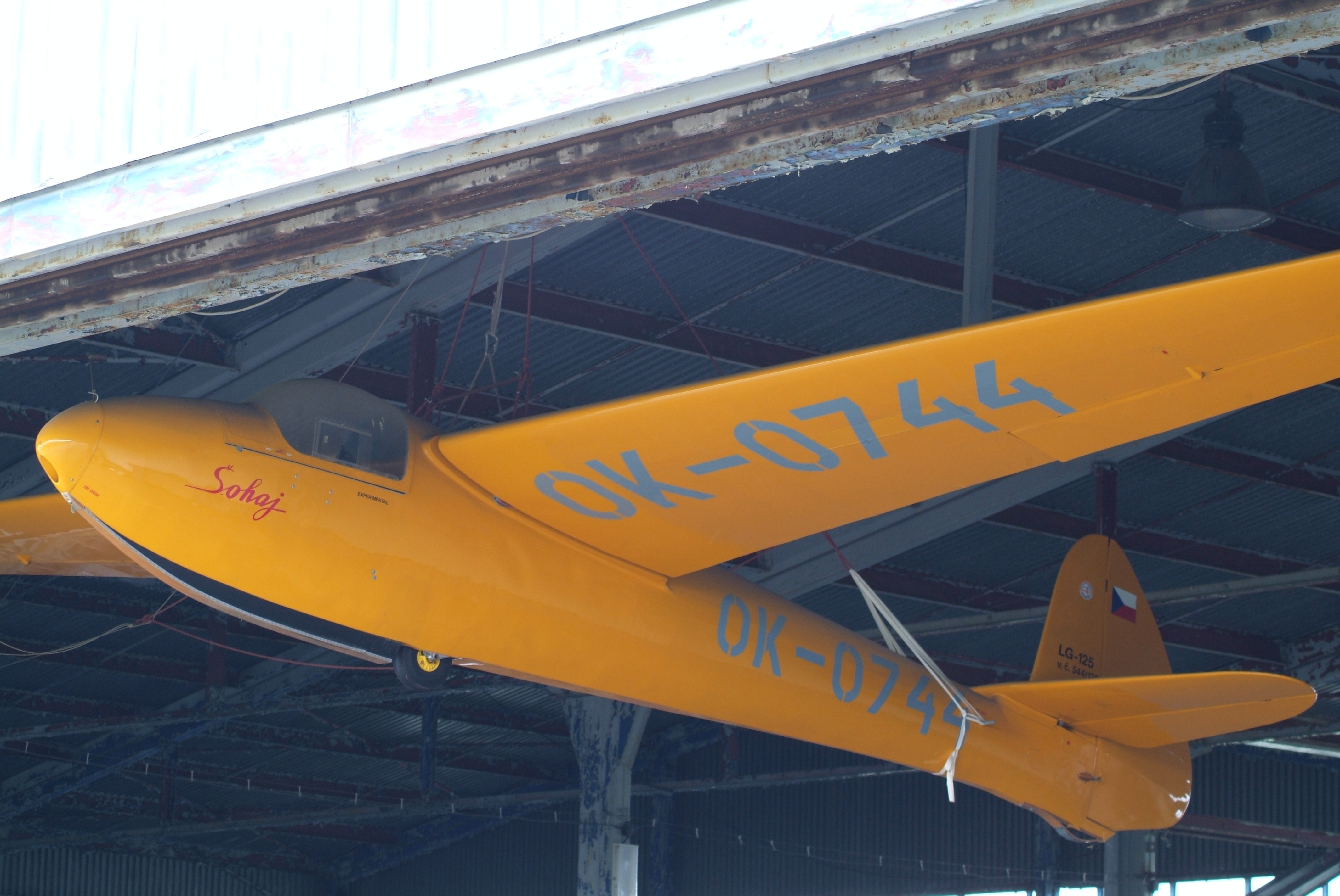 LG-125 Šohaj OK-0744 hung up in the rafters at Chrudin